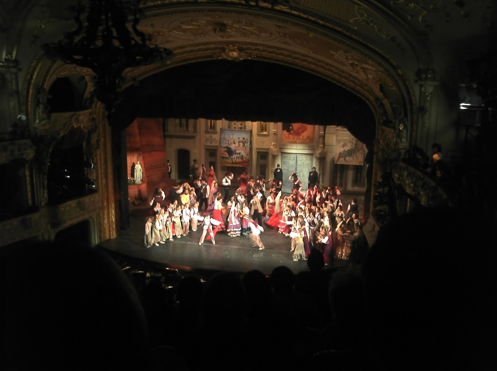 Choreographed opera performance (Carmen by Georges Bizet)